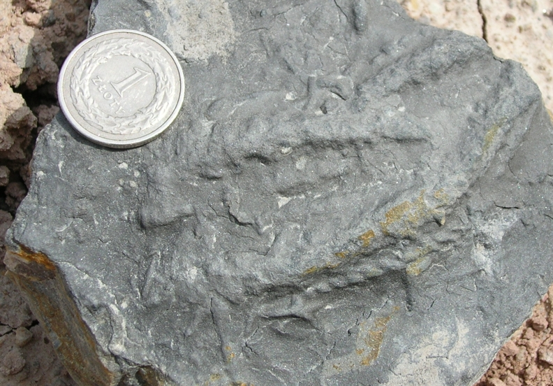 Two overlapping specimen of trilobite resting traces Rusophycus polonicus (Cruziana polonica) at the lower surface of an Upper Cambrian sandstone slab from Wiśniówka Duża quarry (Holy Cross Mts., SE-Poland). Diameter of coin: 23 mm.